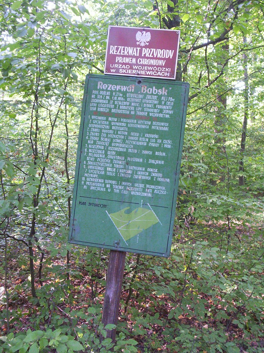 Information tablet in nature reserve Babsk, Poland.